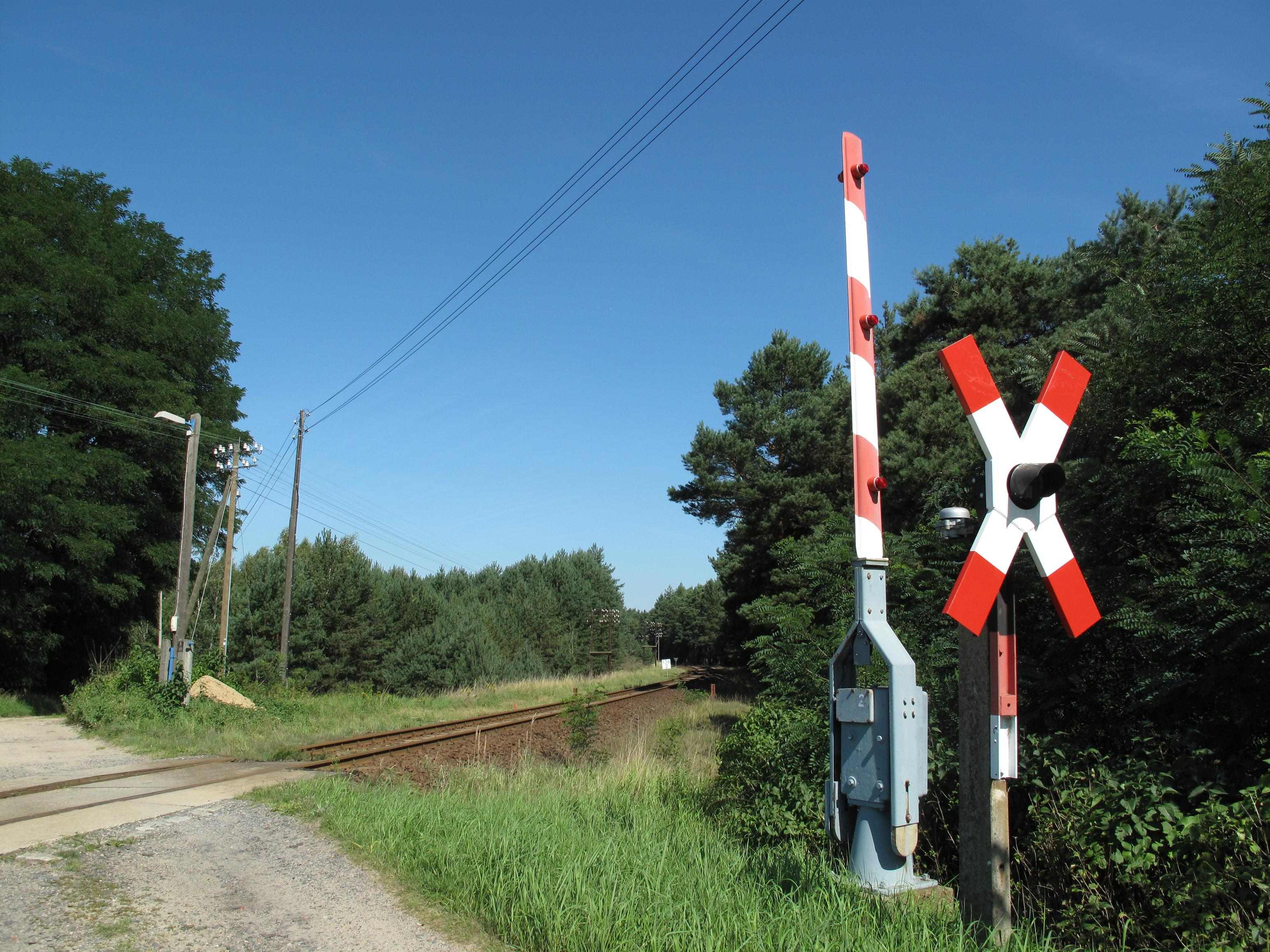 Level crossing of the Railway line Cottbus–Frankfurt (Oder) over the circular path around the Große Müllroser See in the Schlaube Valley Nature Park The nature park is situated in the District Oder-Spree, Brandenburg, Germany.